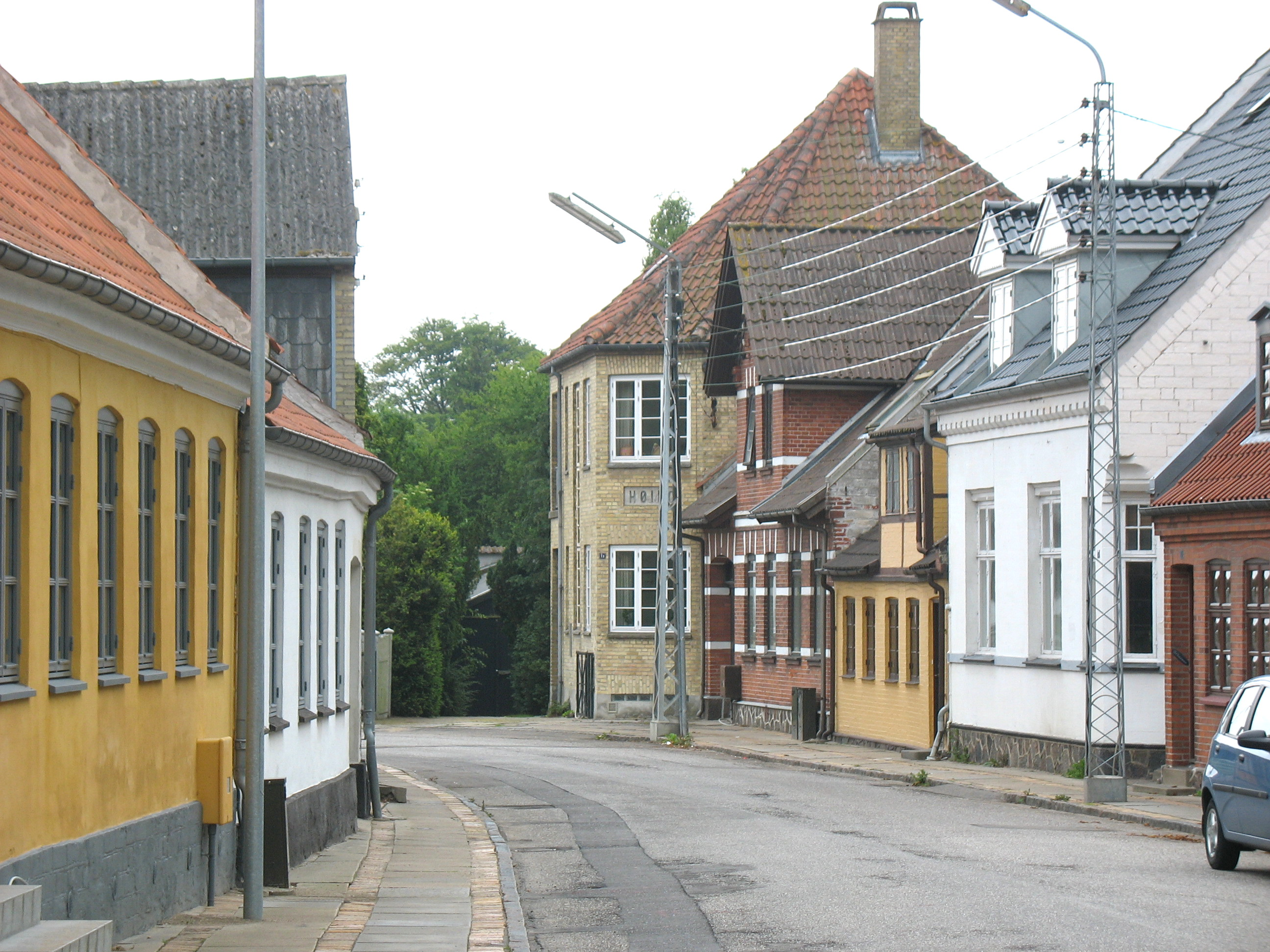 Street from the small town "Store Heddinge" located in South Zealand, east Denmark.